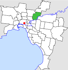 Location of the City of Heidelberg within Melbourne.